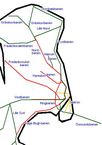 Railway network of the Copenhagen region in Denmark. Danish names on railways.